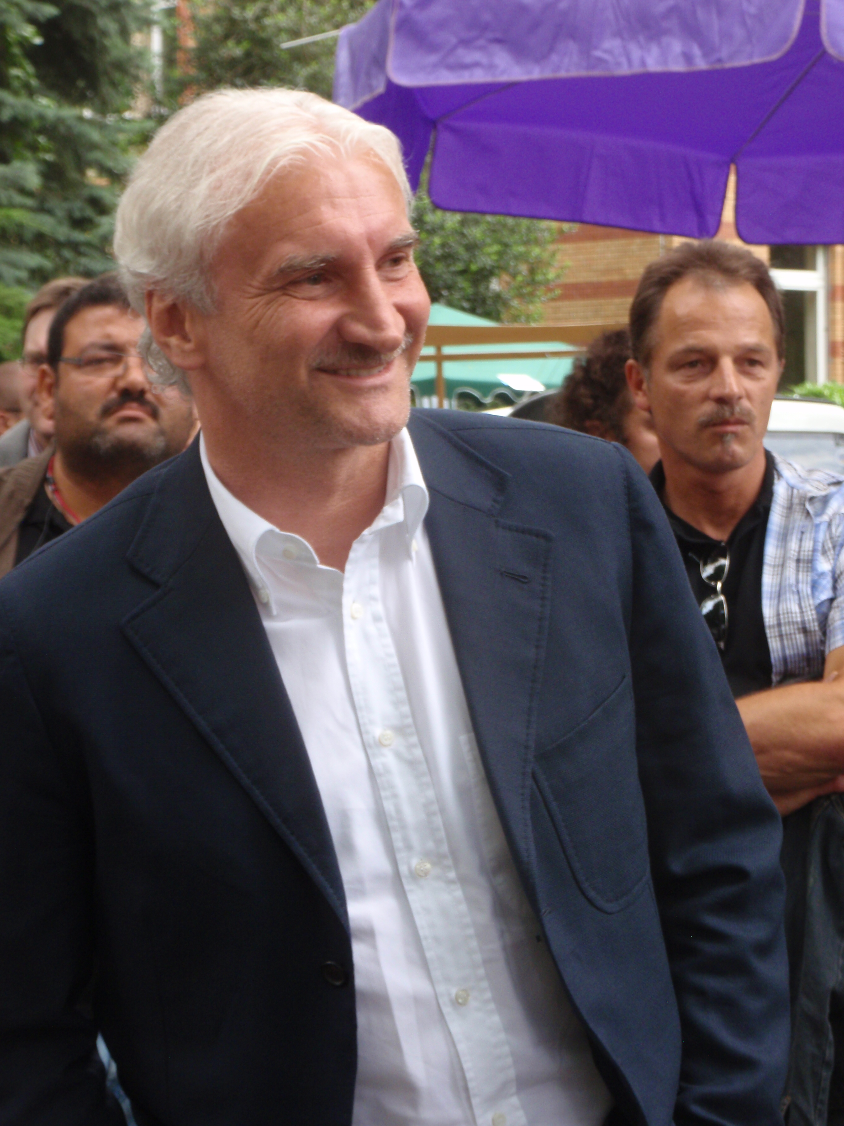 The German football coach Rudi Völler in June 2009 (in Riedstadt, Germany)